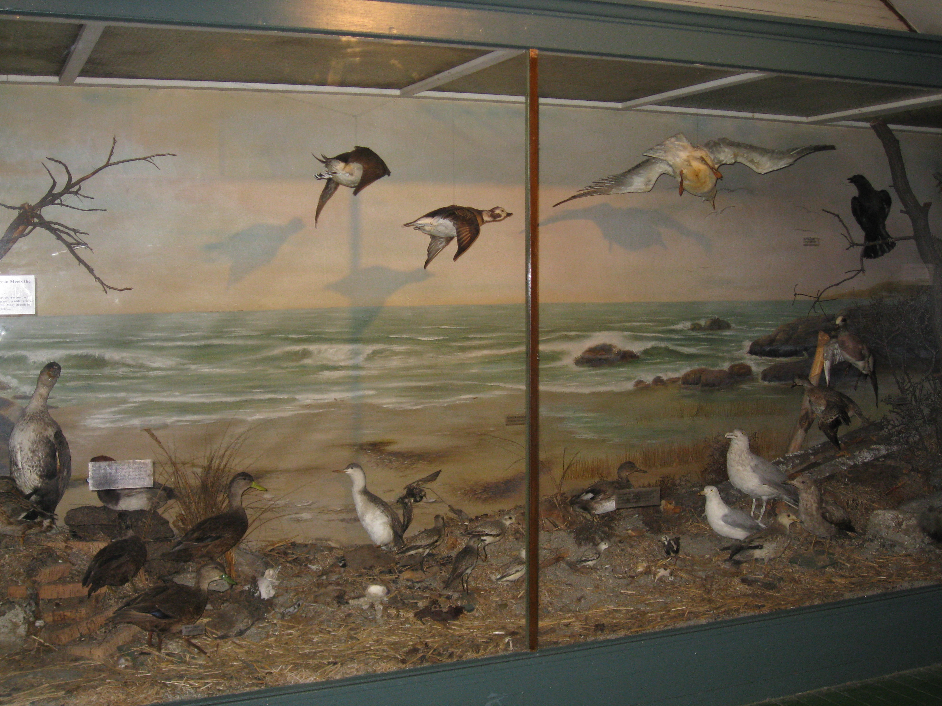 Diorama of birds found at the ocean shore at the Connecticut Audubon Society Birdcraft Museum and Sanctuary